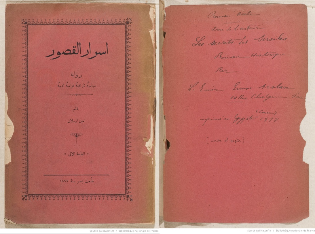 Asrar al qusur / The secrets of the palaces. This copy was donated by author Amin Arslan to the French National Library.